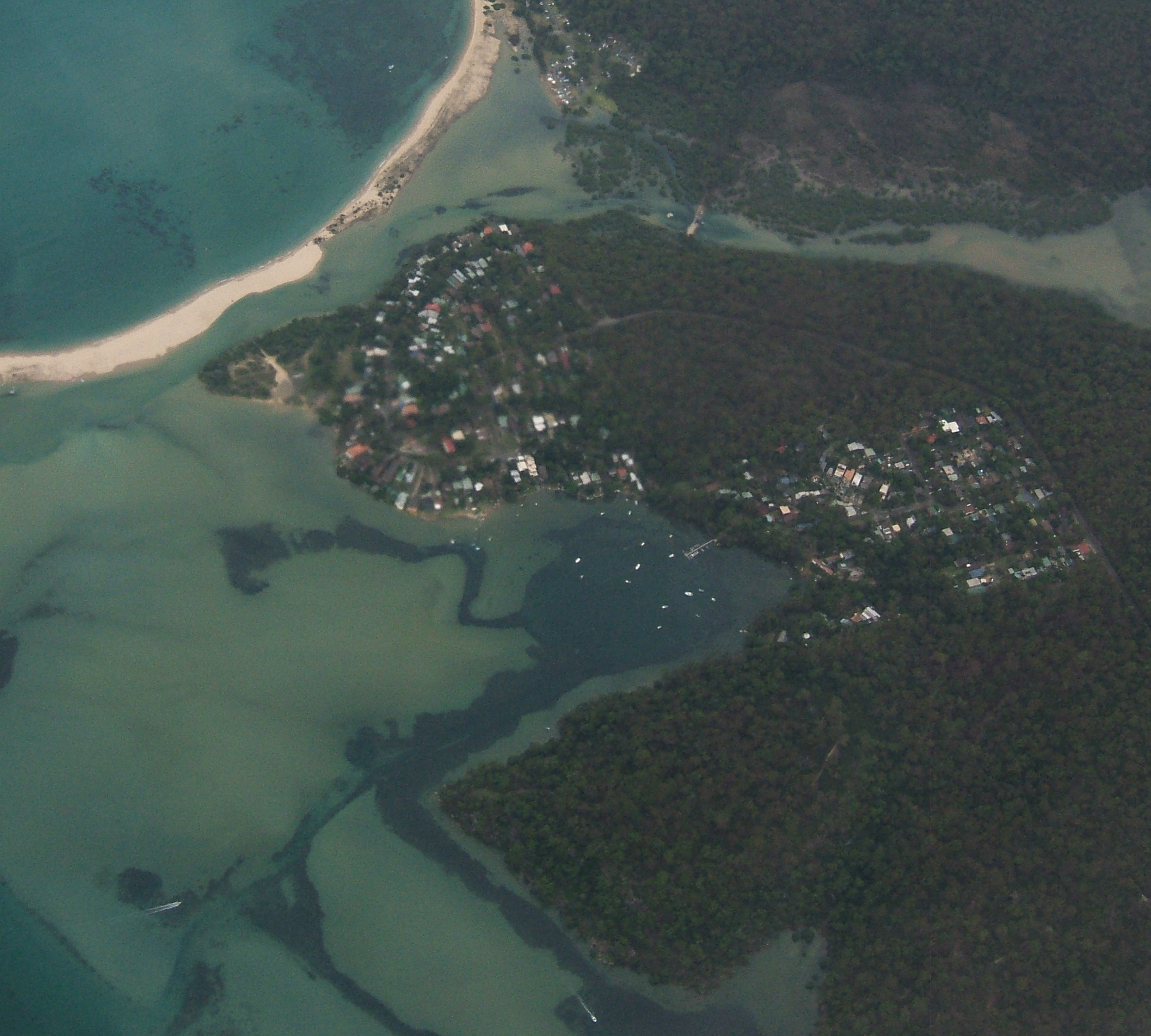 Aerial view of the said location in Sydney